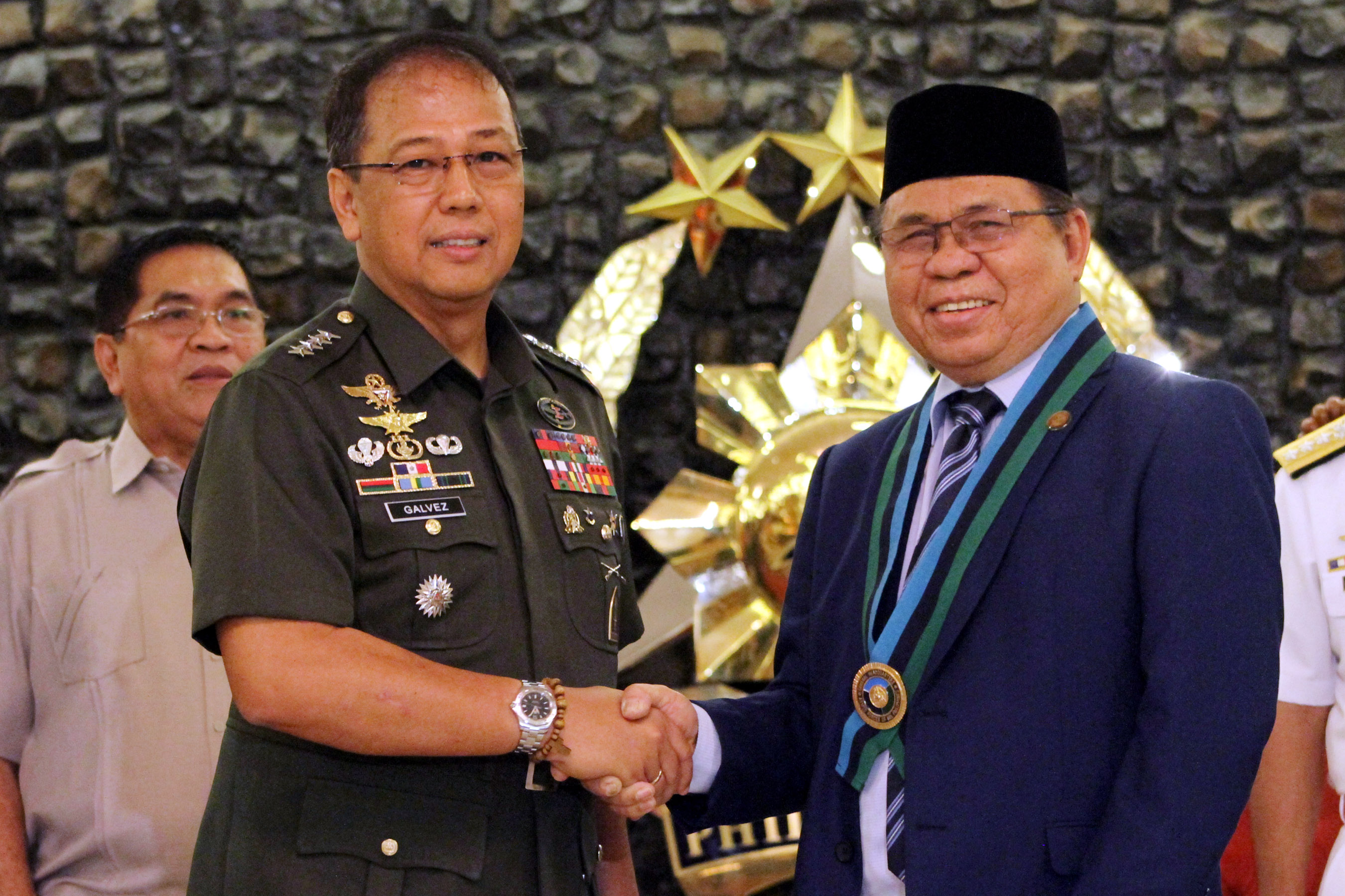 Armed Forces of the Philippines (AFP) chief of staff Carlito Galvez Jr. (left) shakes hands with Moro Islamic Liberation Front Chairman Al-Hajj Murad Ebrahim (right), during the latter's visit at Camp Aguinaldo in Quezon City on Monday (Nov. 19, 2018).